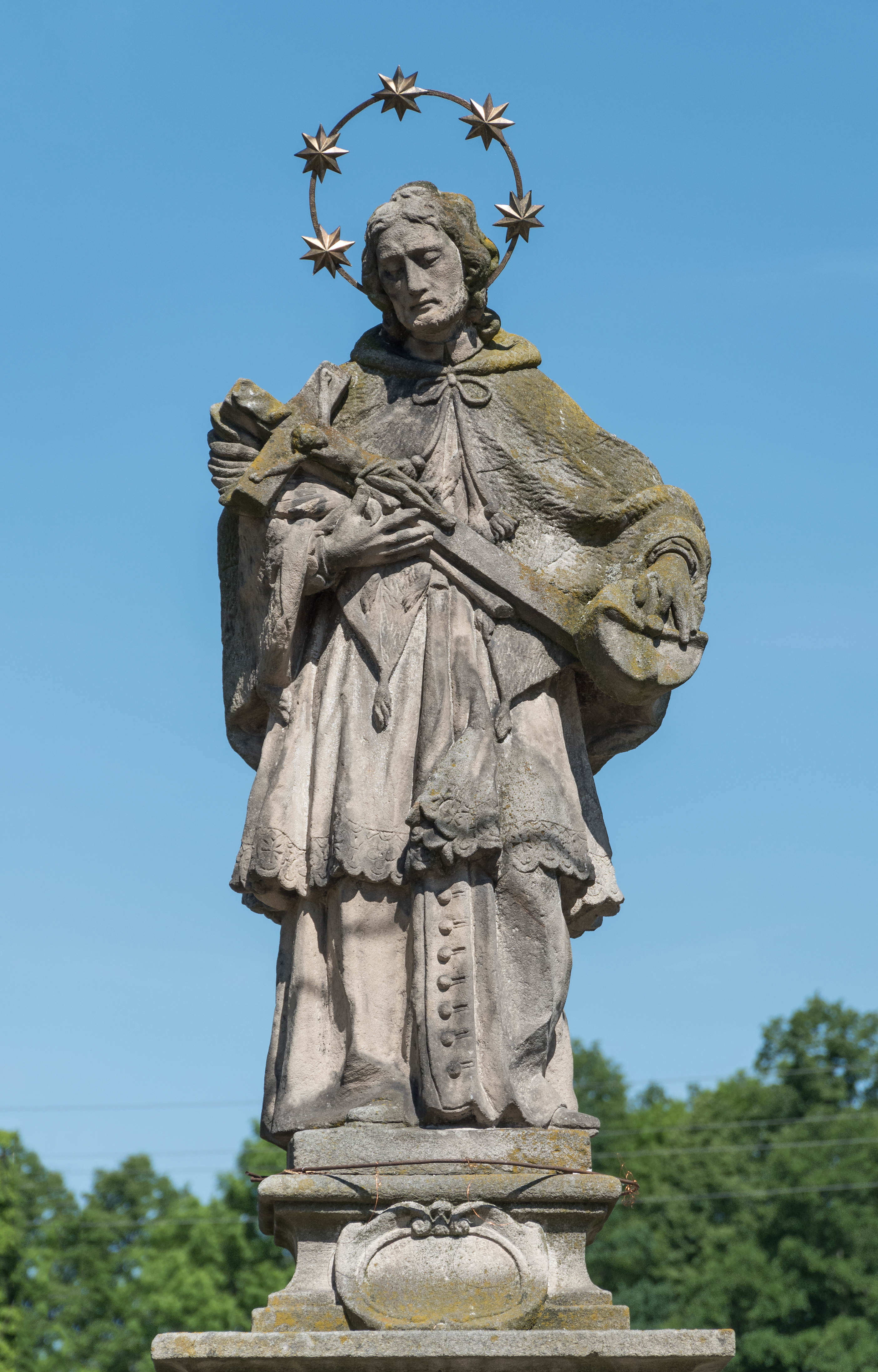 John of Nepomuk statue in Żelazno